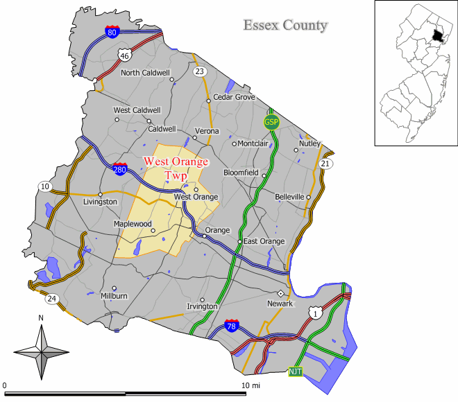 Source: Jim Irwin Original work by Jim Irwin, December 2005.